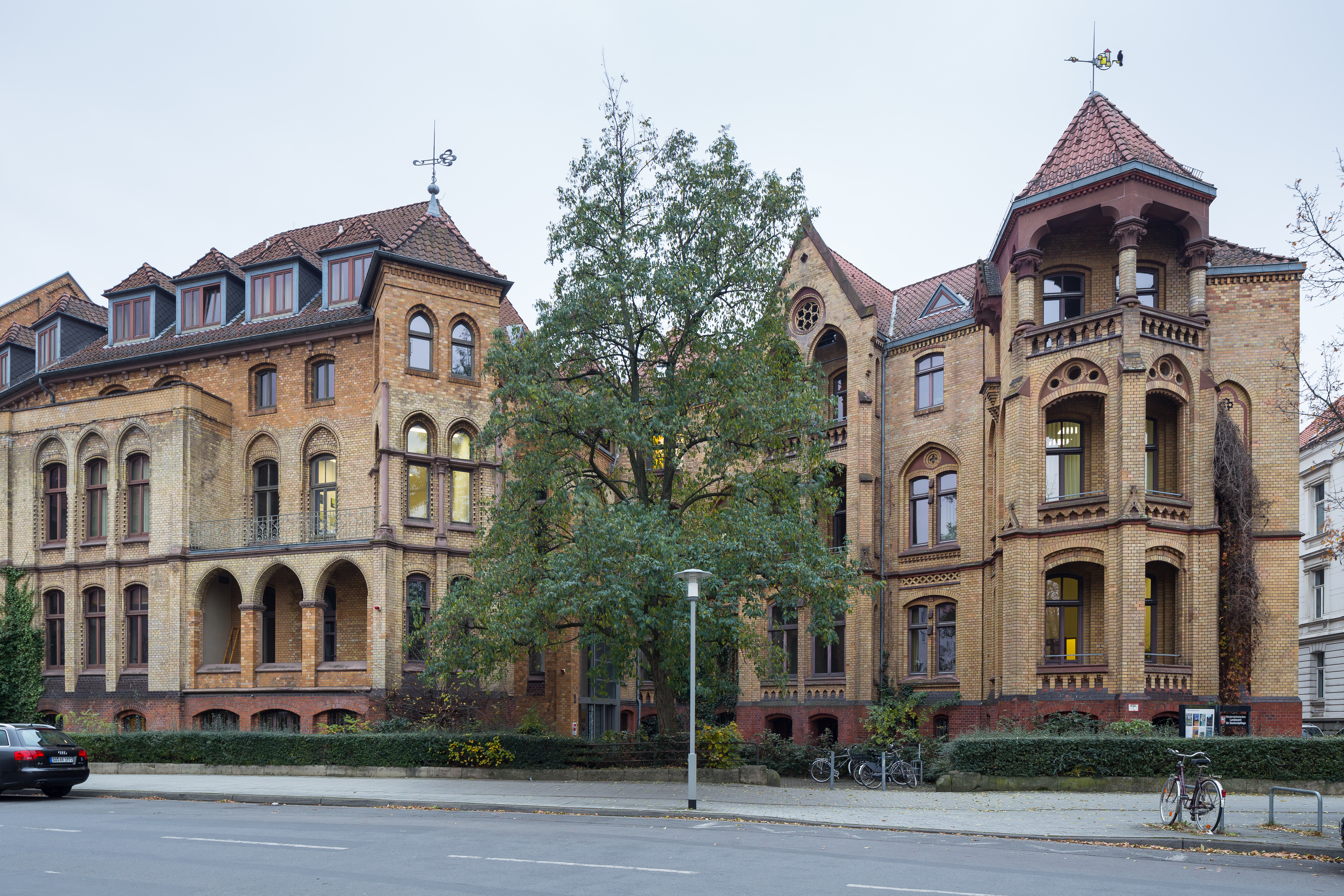 Authority for the perservation of cultural heritage of the federal state of Lower Saxony, Germany. The building is located at Scharnhorststrasse no. 1 in Hanover, Germany.